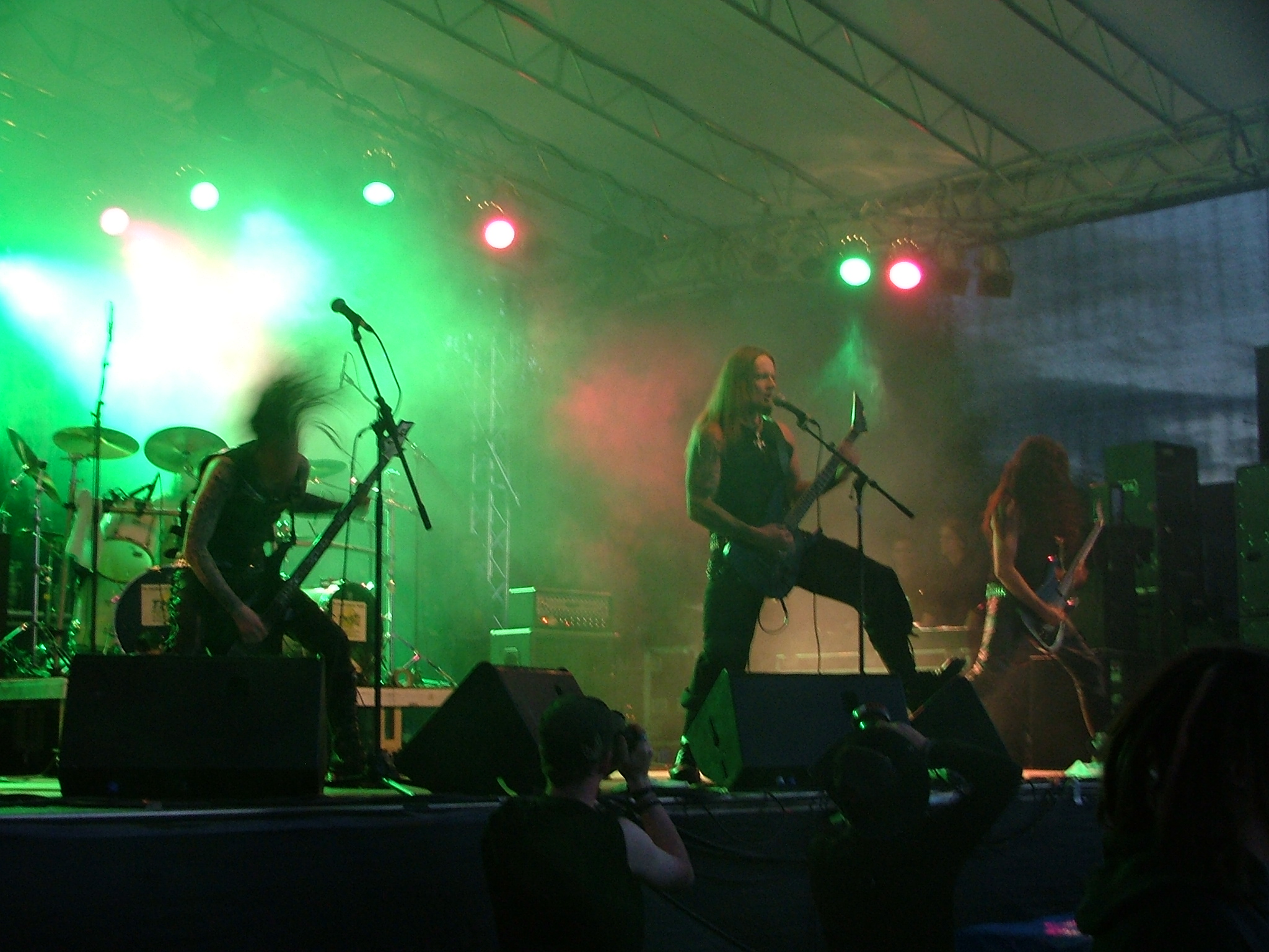 Austrian black metal band Belphegor at 'Rock the Lake' in Finkenstein am Faaker See